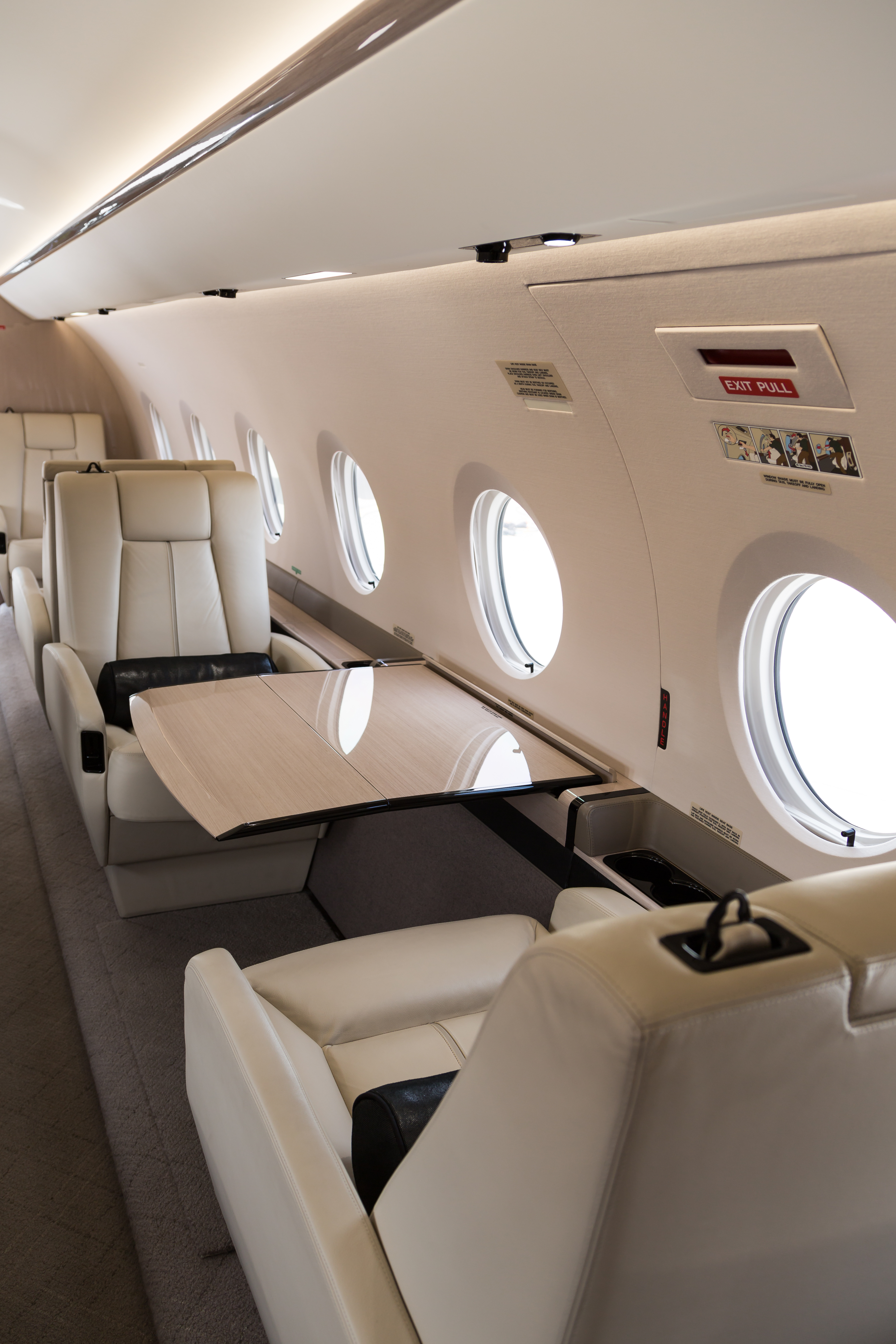 Gulfstream G280, EBACE 2018